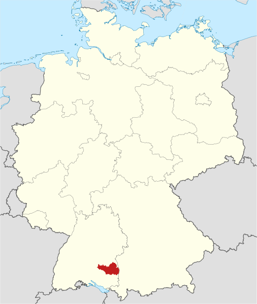 Locator map of Landkreis Biberach in Baden-Württemberg, Germany.